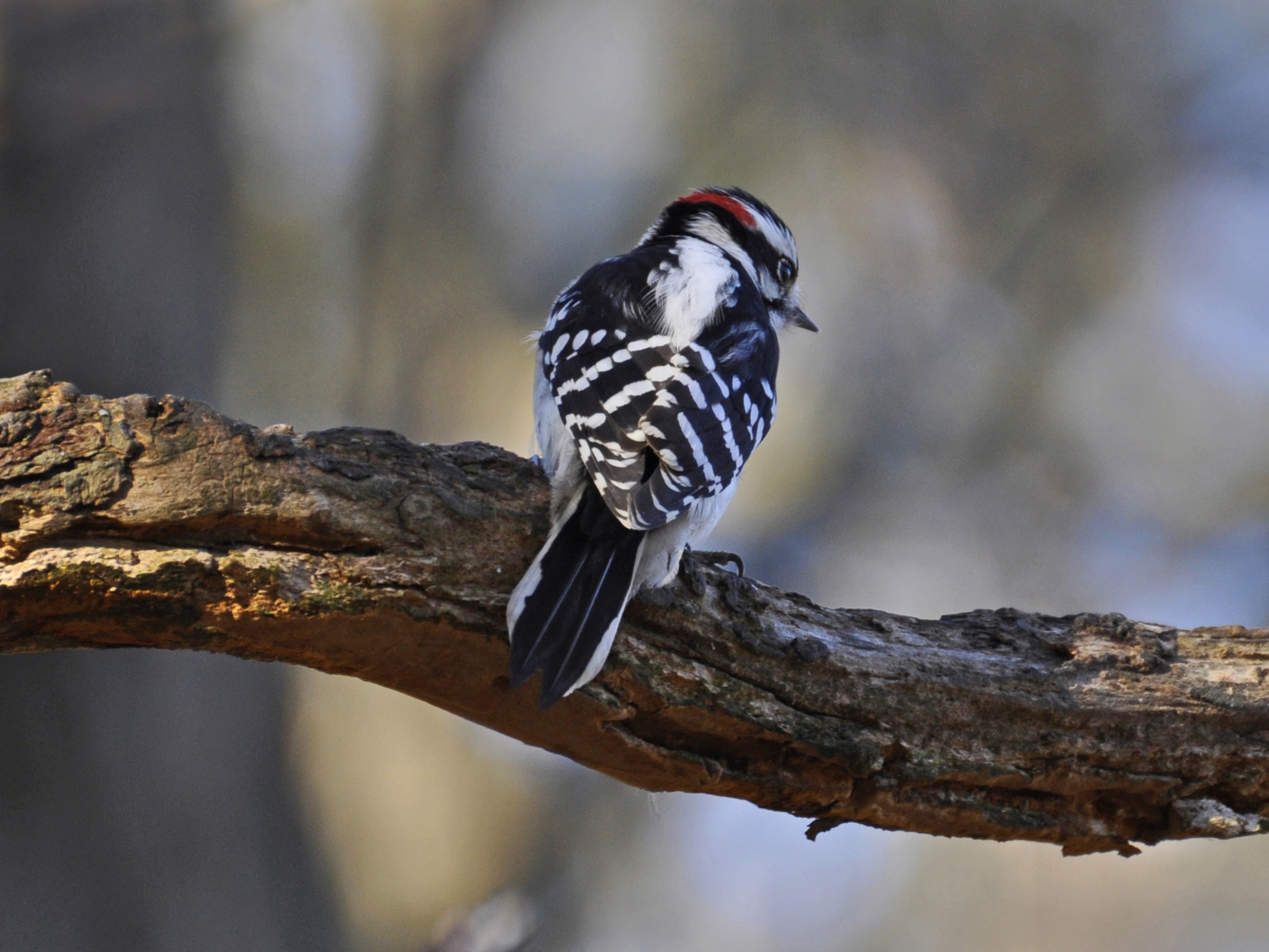 A male Downy Woodpecker at the Seven Ponds Nature center near Dryden, Michigan, United States of America.